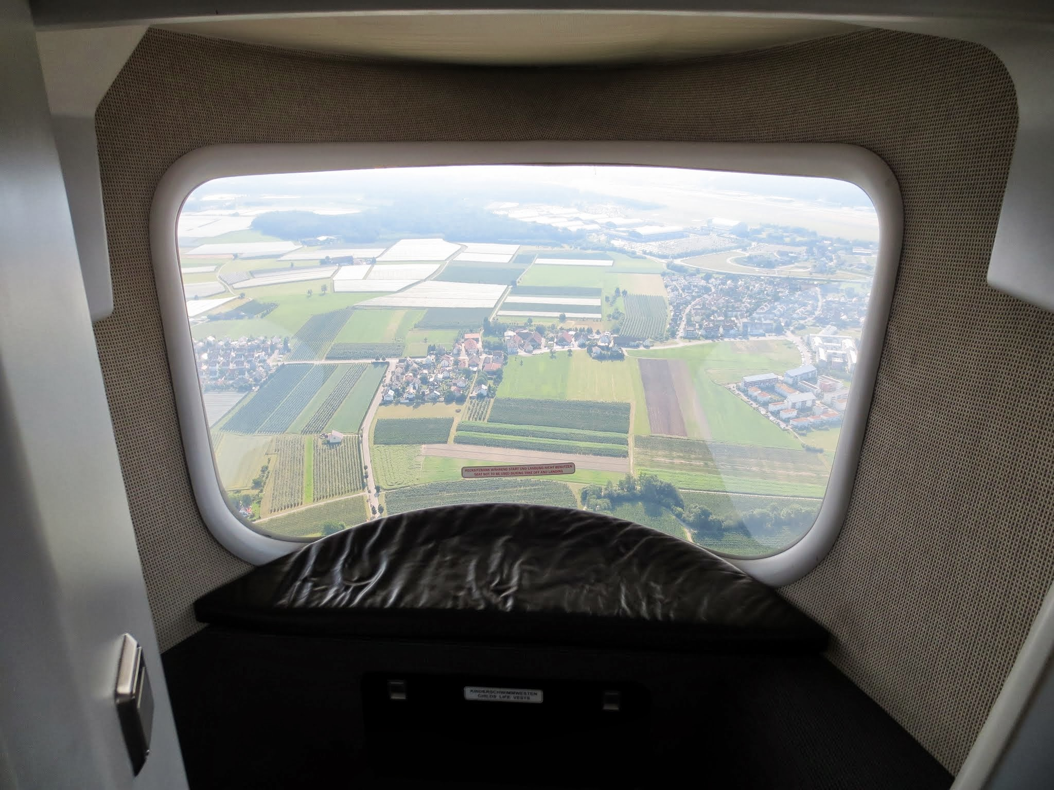 Zeppelin NT rear window with its bench